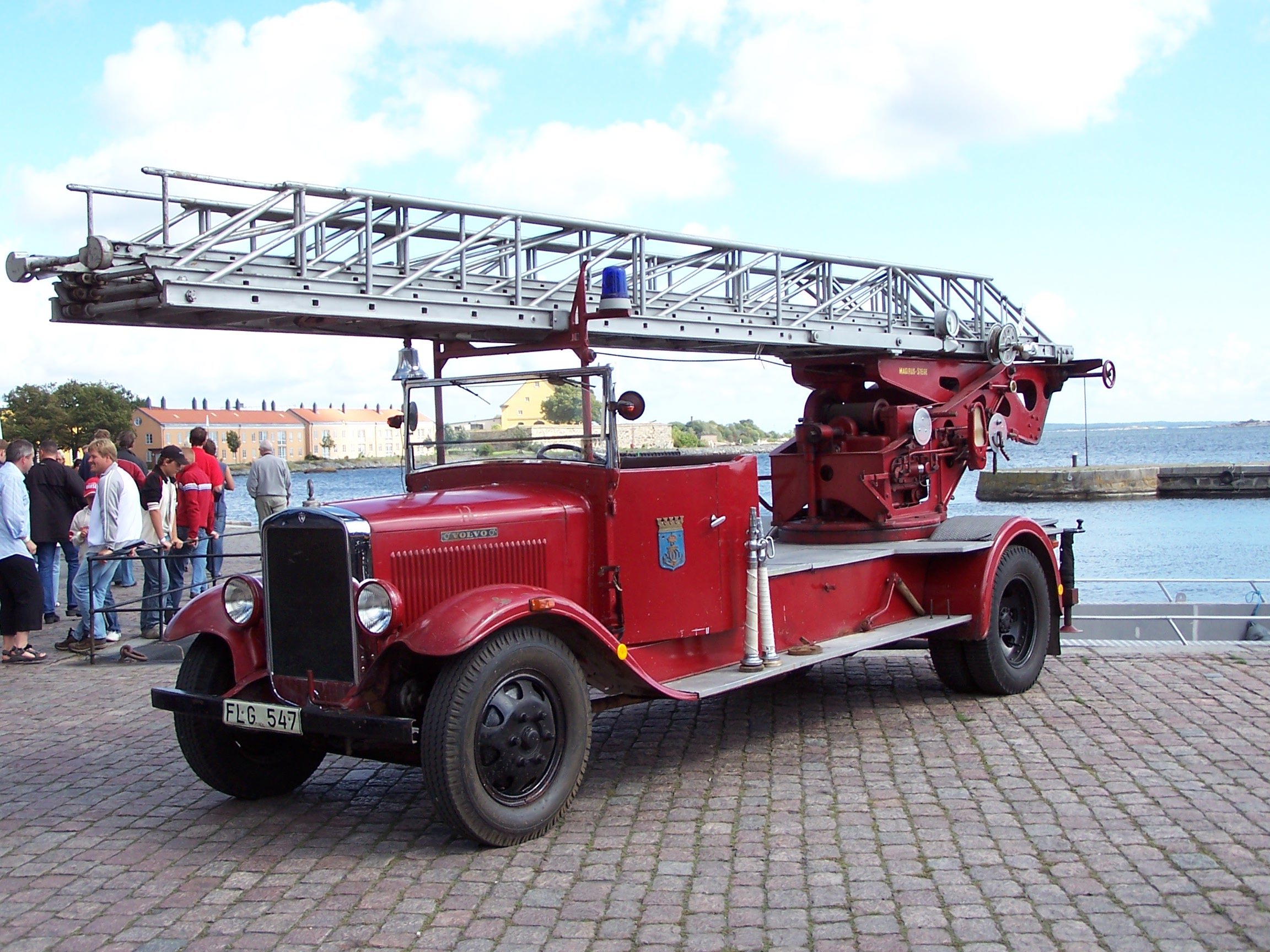 Fire engine, Karlskrona - Volvo LV 70D (year 1936).